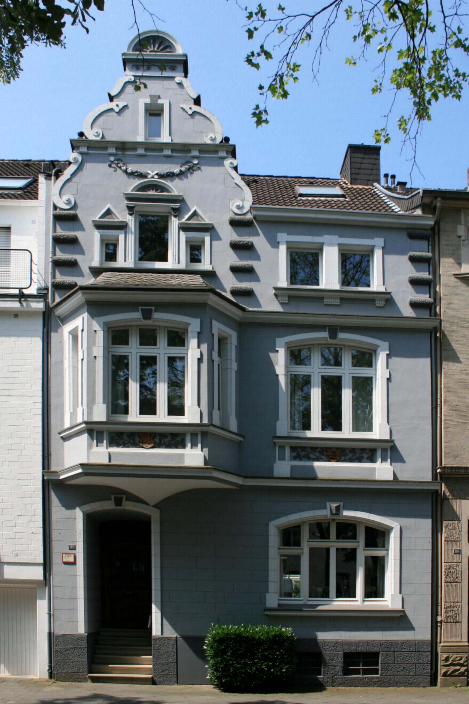 Cultural heritage monument No. B 009 in Mönchengladbach